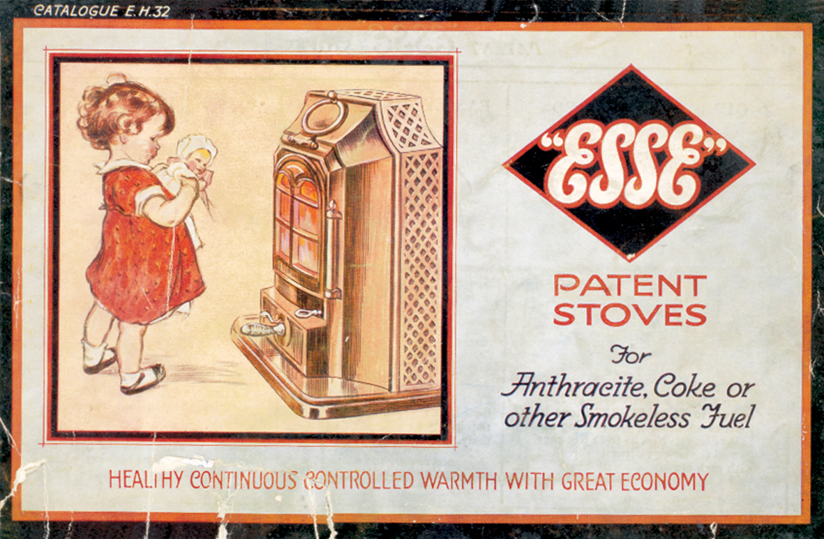 Advertising Poster from the former Smith & Wellstood Company, Scotland